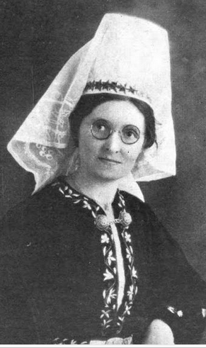 A young white woman with dark hair, wearing round glasses and a tall white fabric headpiece and dark embroidered jacket.